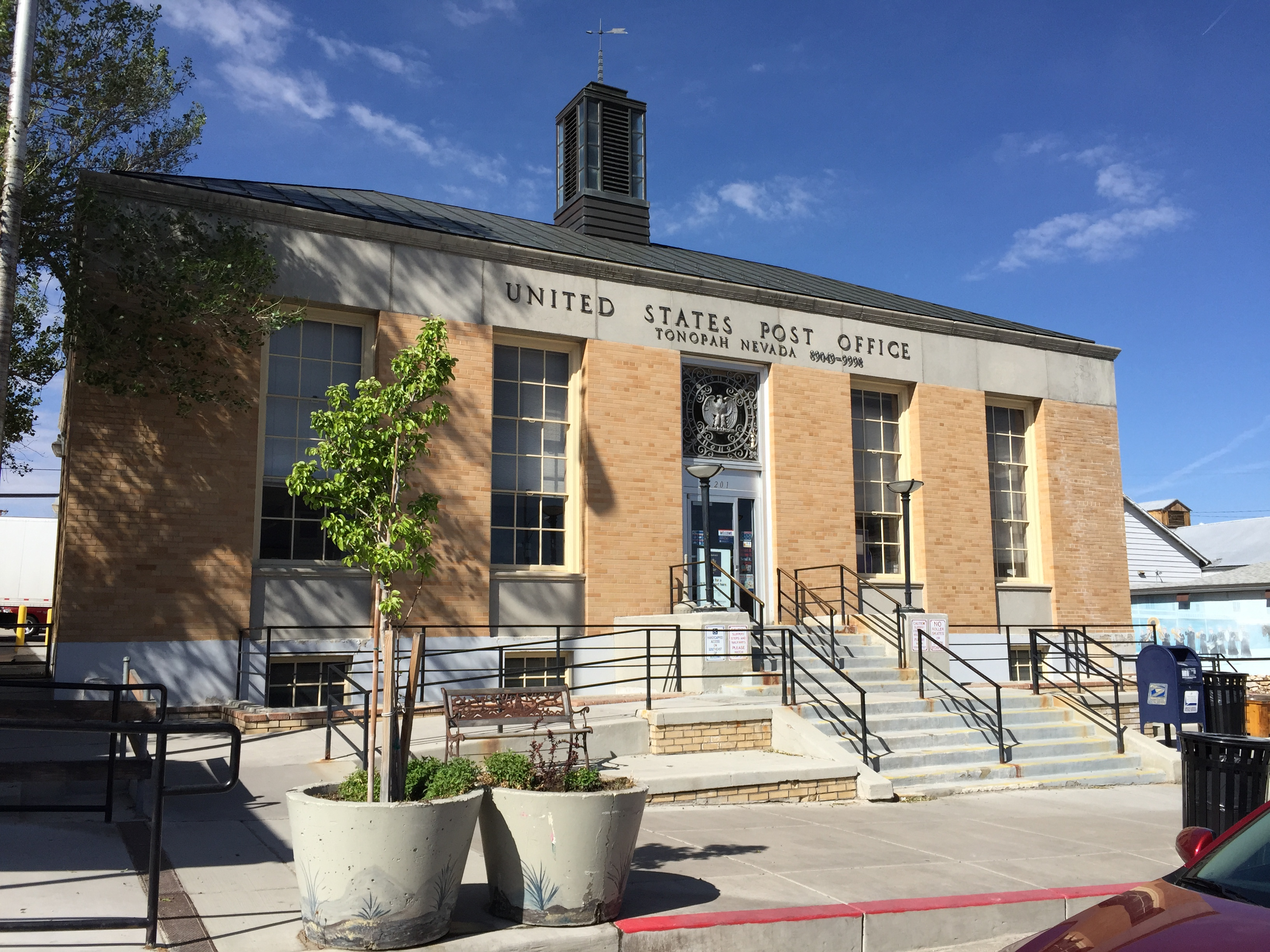 The United States Post Office on Main Street (U.S. Routes 6 and 95) in Tonopah, Nevada